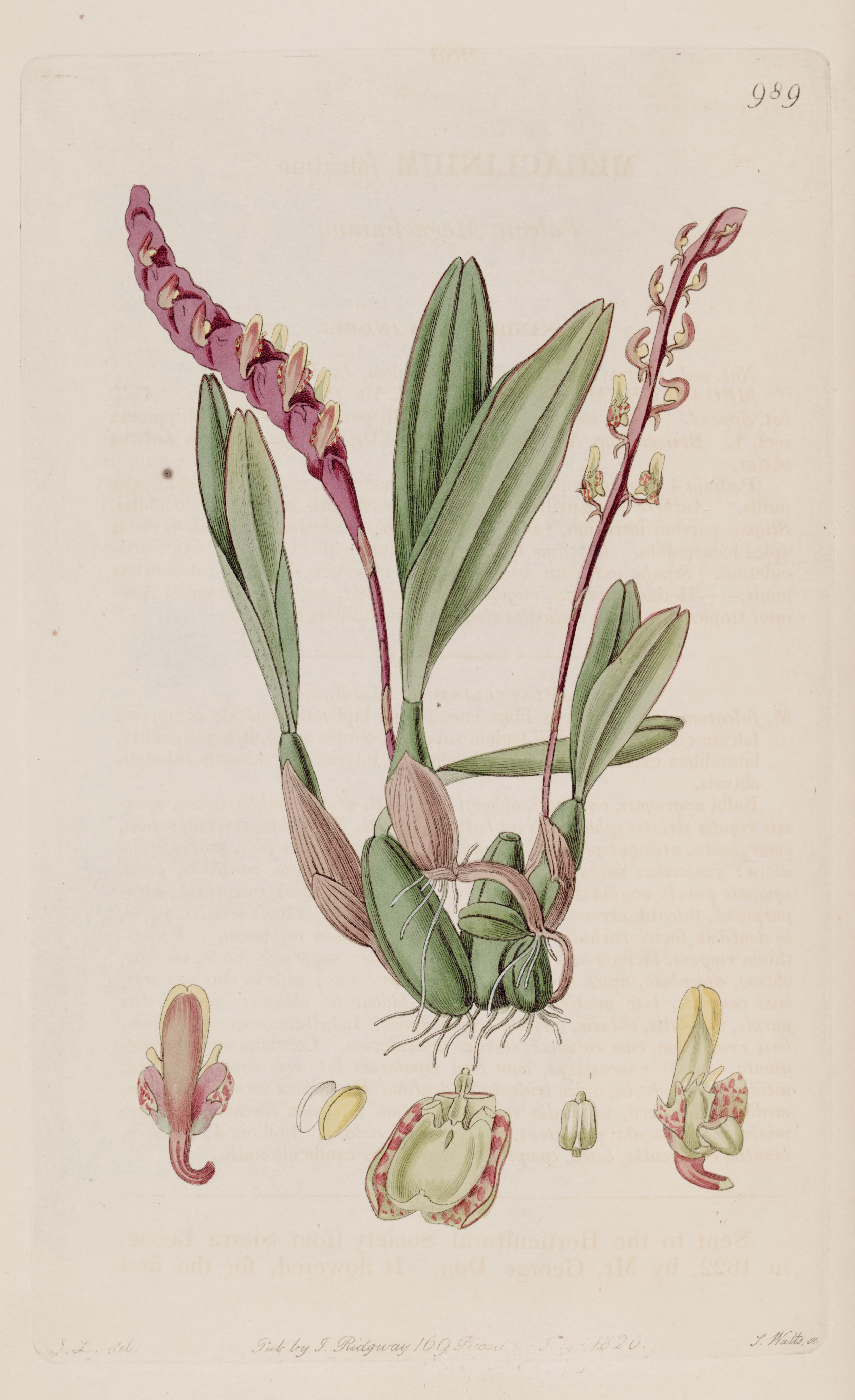 Illustration of Bulbophyllum falcatum (as syn. Megaclinium falcatum)